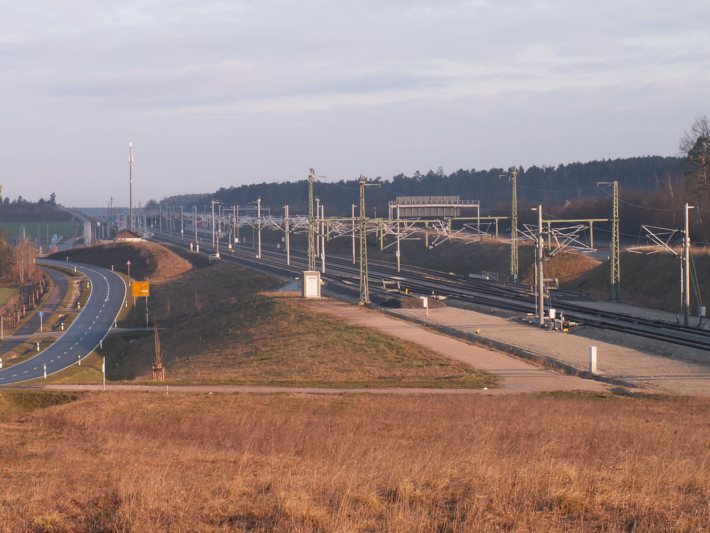 Overview of the new train station of Allersberg at the Nuremberg–Ingolstadt high-speed railway track. The station has been opened in December 2006.